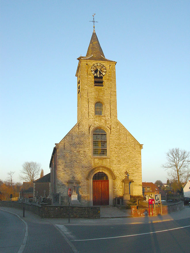 Bollebeek church, Parochiekerk Sint-Antonius, Flemish Brabant, Belgium